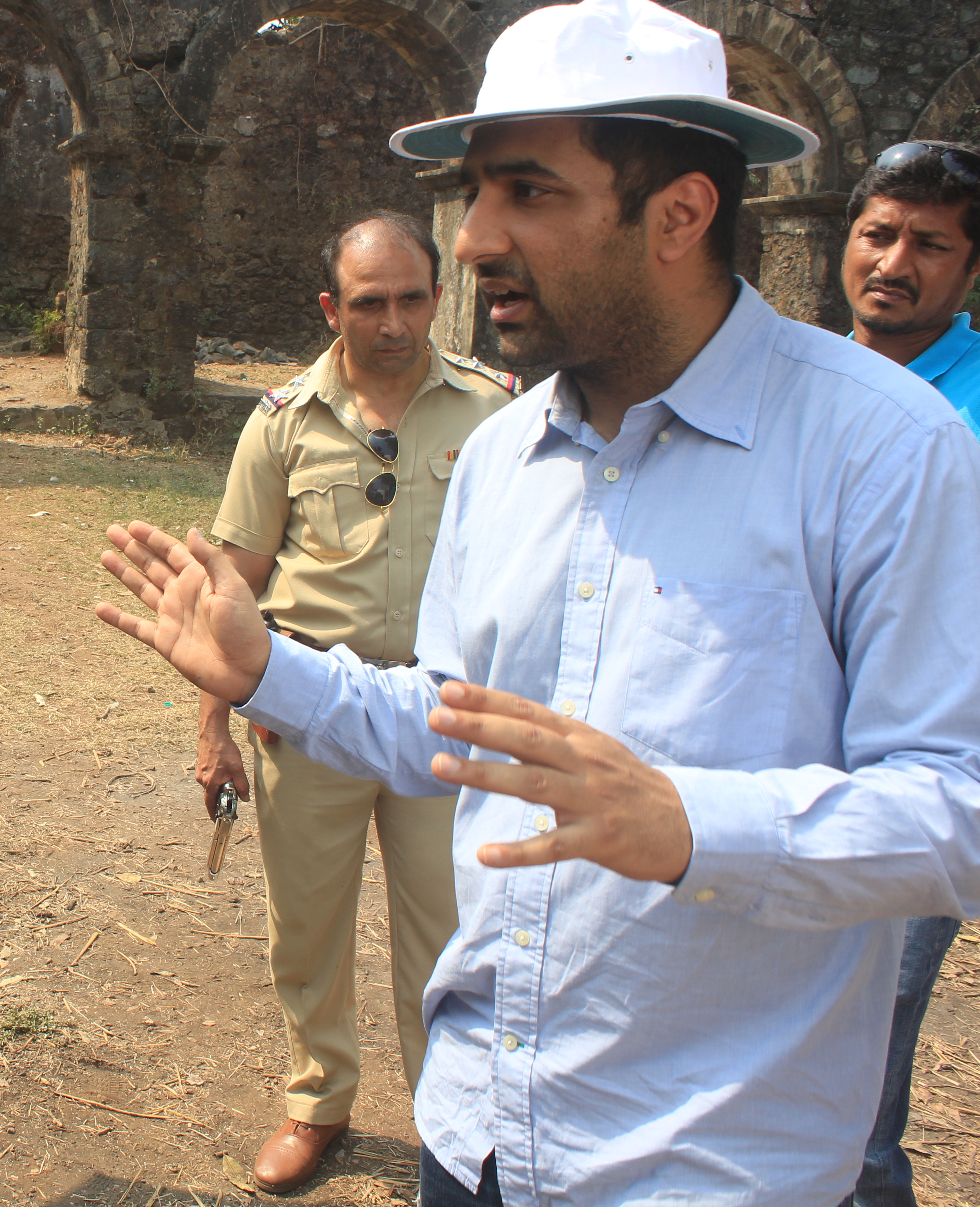 Climax